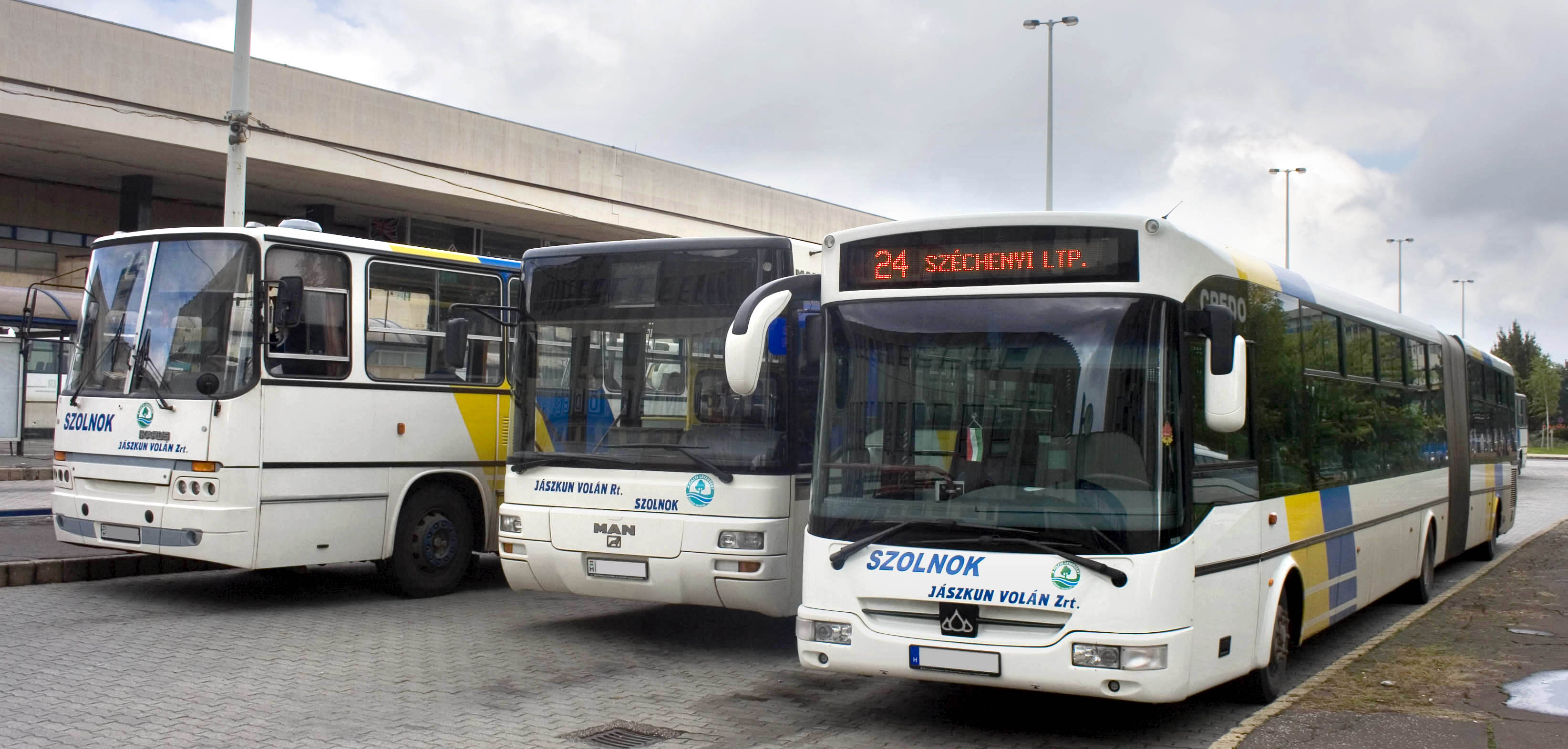 Hungary Szolnok Bus Station & Jubilee Square -Jaszkunvolan - different types of buses